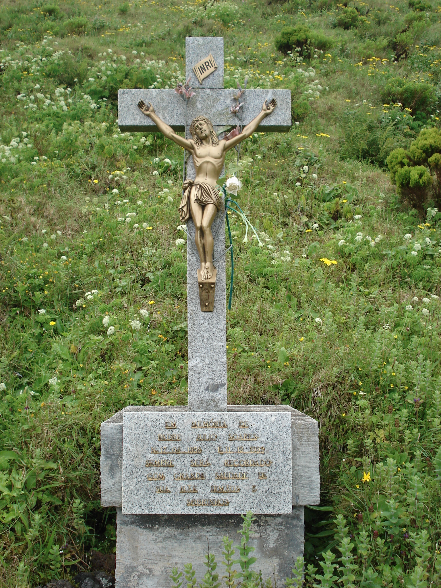 Memorial to the death of Father Júlio Soares, parish priest, whom died in the SATA Air Açores accident on Pico de Esperança, Norte Grande, Velas, São Jorge Island, Azores